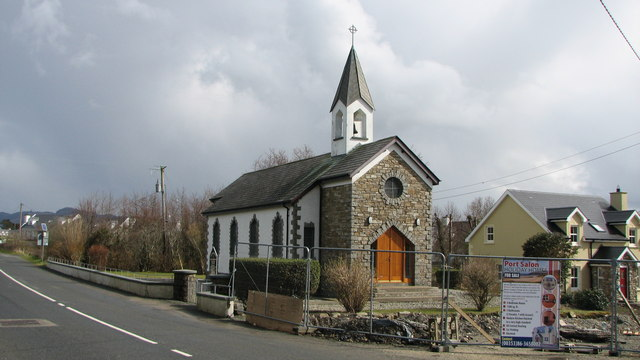 Parish church,Portsalon All Saints Church of Ireland in Portsalon in the parish of Clondevaddock, on R246 road